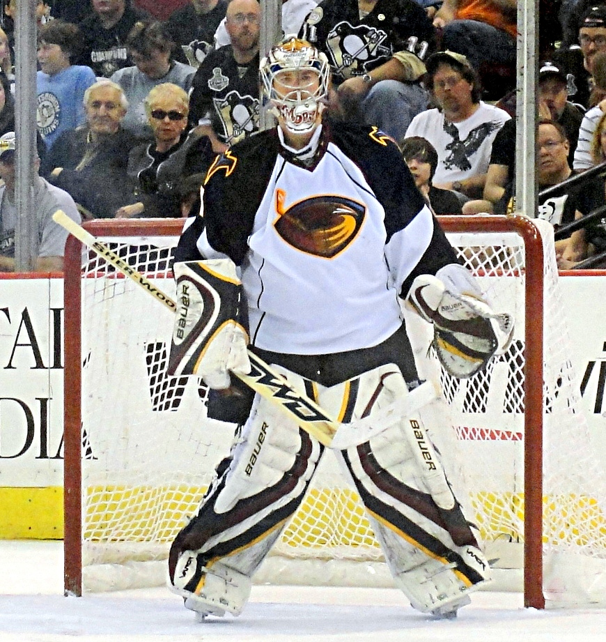 Atlanta Thrashers goaltender Johan Hedberg during a game against his former team, the Pittsburgh Penguins, April 3, 2010 at Mellon Arena in Pittsburgh, PA.